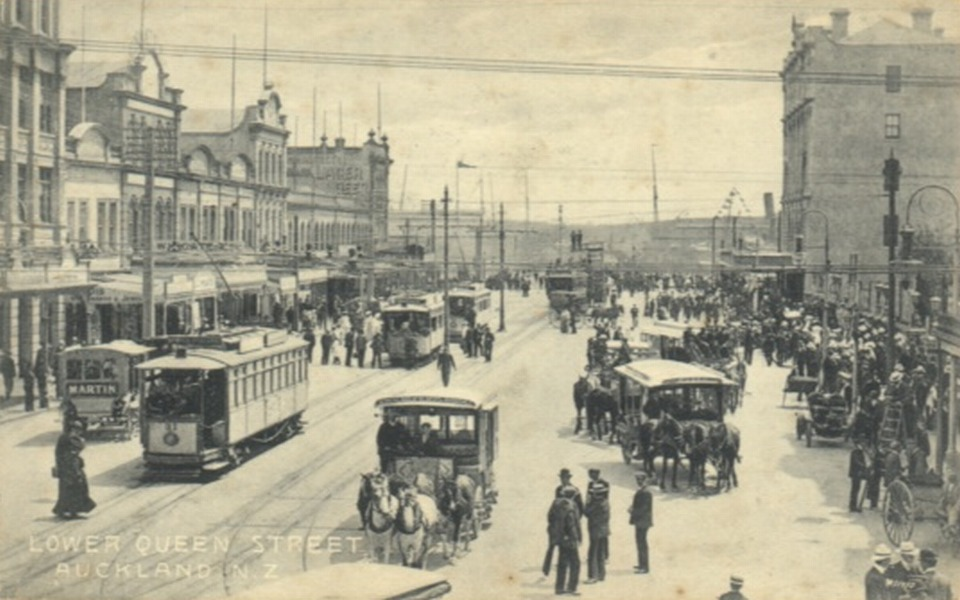 Lower Queen Street in Auckland, New Zealand in 1919, showing typical road traffic. Postcard image from 1919. View assumed to be towards wharves and Devonport.